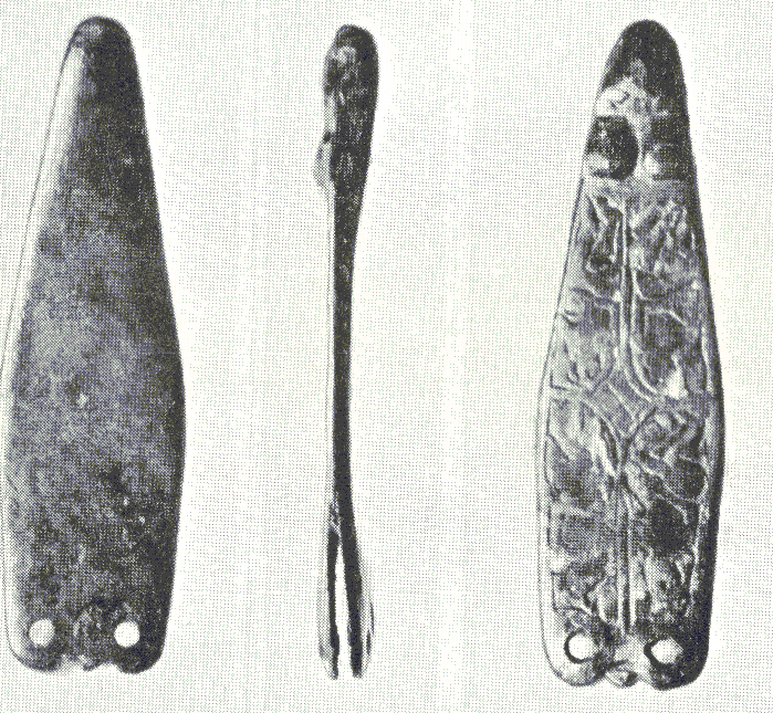 Anglo-Saxon tag end found at Church Norton, Sussex